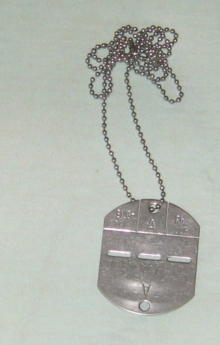 Military of Austria Dog tag